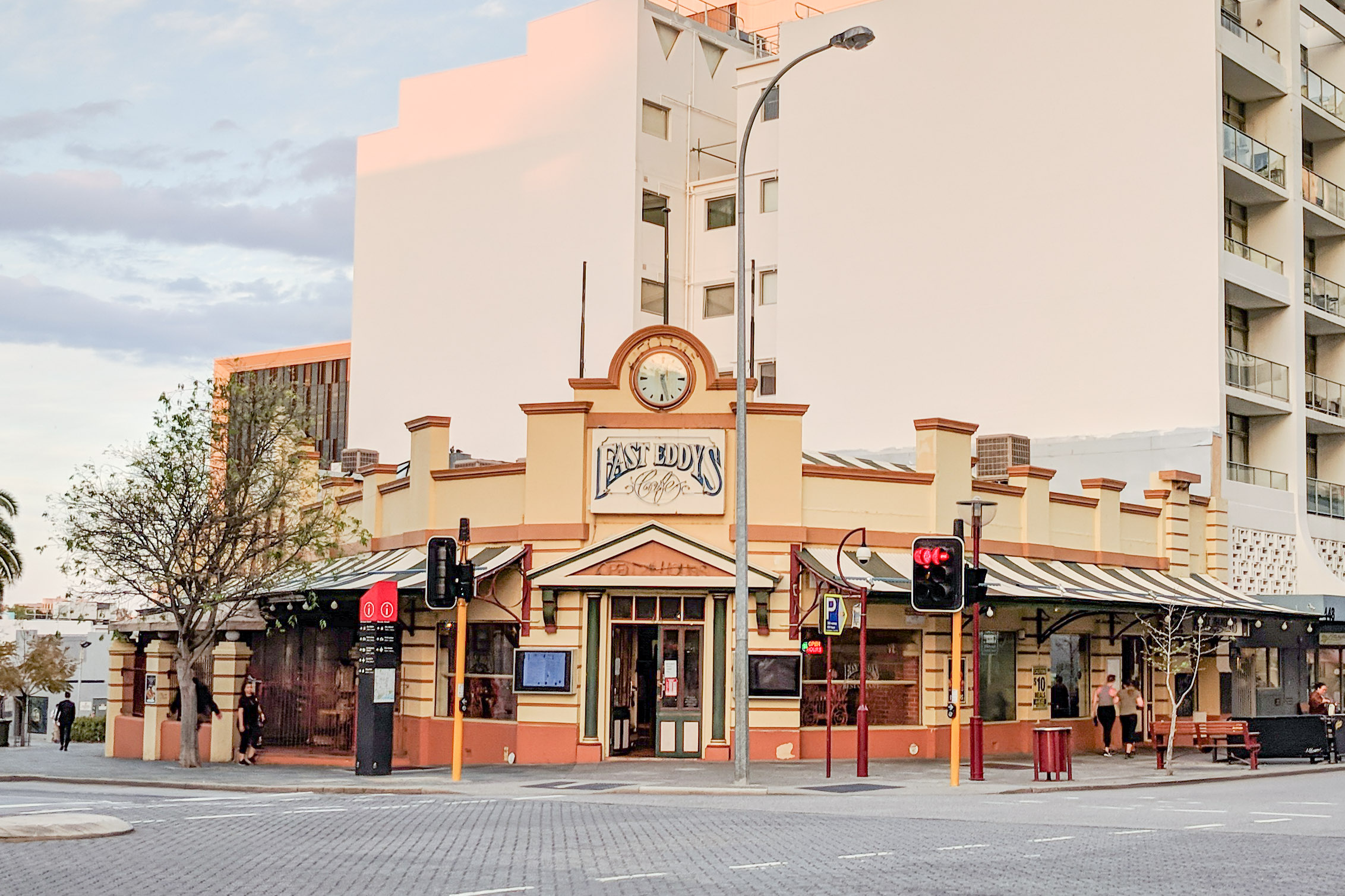 Fast Eddys cafe in Perth, on the corner of Murray and Milligan Streets.